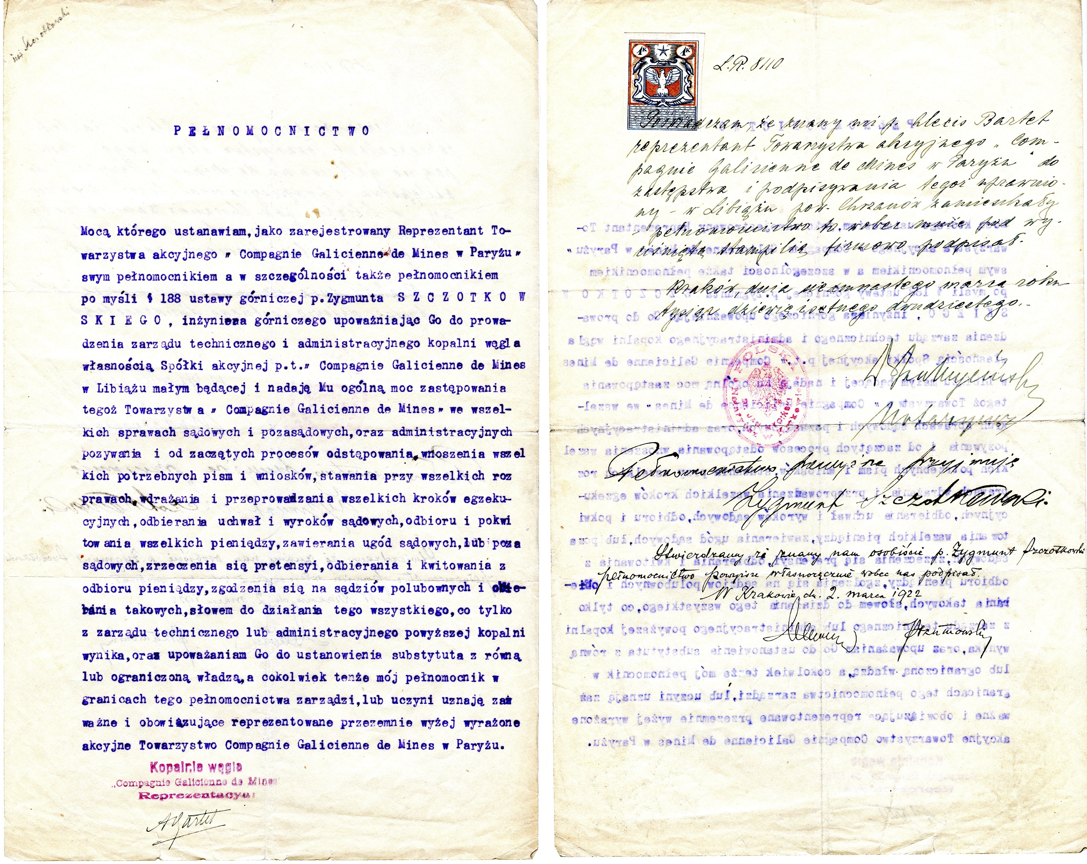 archival document of "Janina" coal Mine in Libiąż, Poland power of attorney (1922) for Zygmunt Szczotkowski, signed by Alexis Bartet